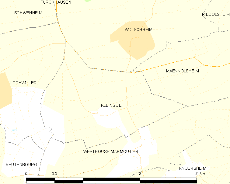 Map of French municipality